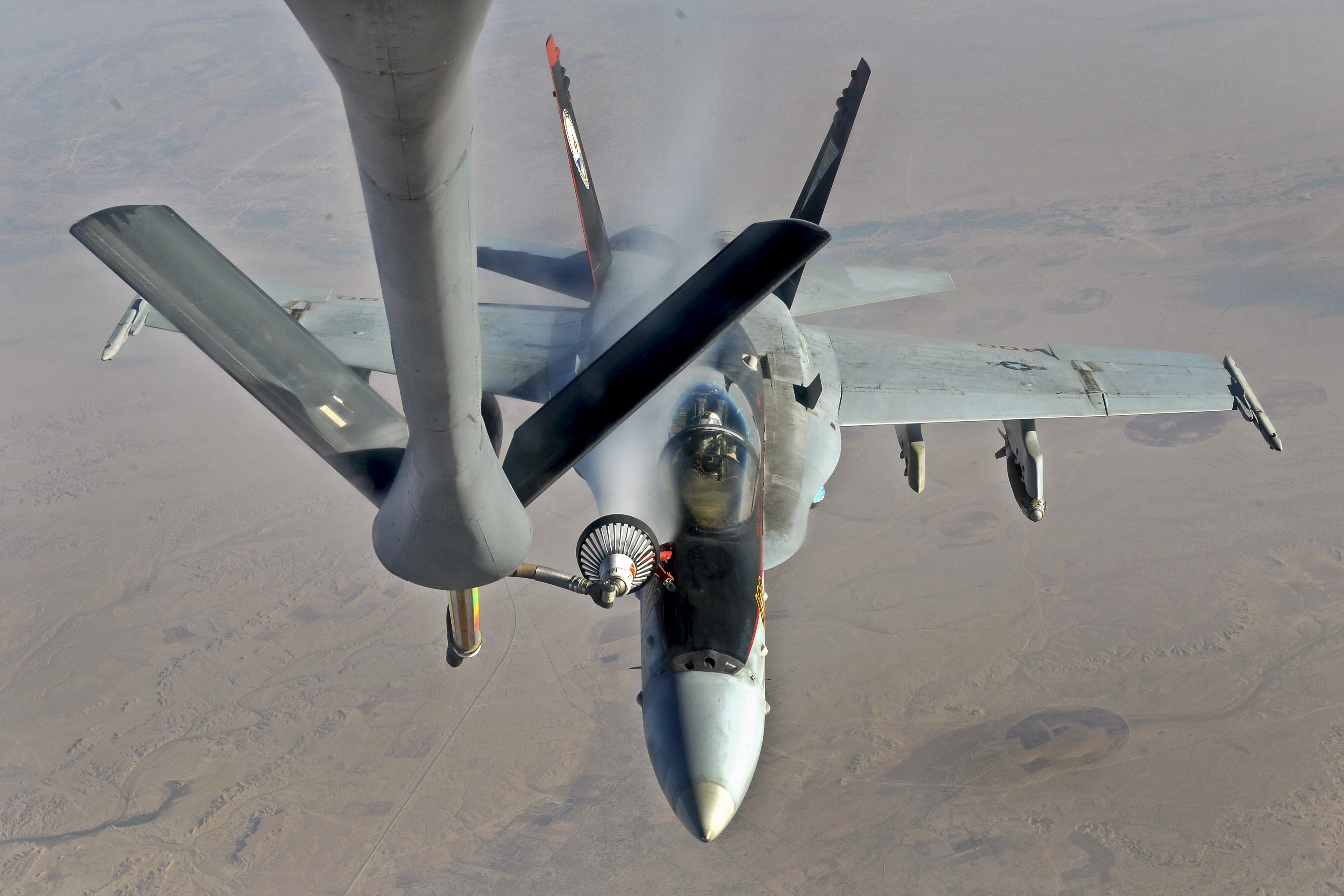 A U.S. Navy F/A-18C Hornet receives fuel from a KC-135 Stratotanker over Iraq before conducting an airstrike against the Islamic State of Iraq and the Levant (ISIL).